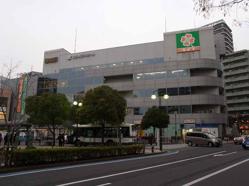 Toei subway (Tokyo metropolitan government municipal) Shinozaki station. A part of Tokyo Kotsu Kaikan Shinozaki Bldg. Place: Edogawa, Tokyo Japan （都営地下鉄新宿線篠崎駅：交通会館篠崎ビル）